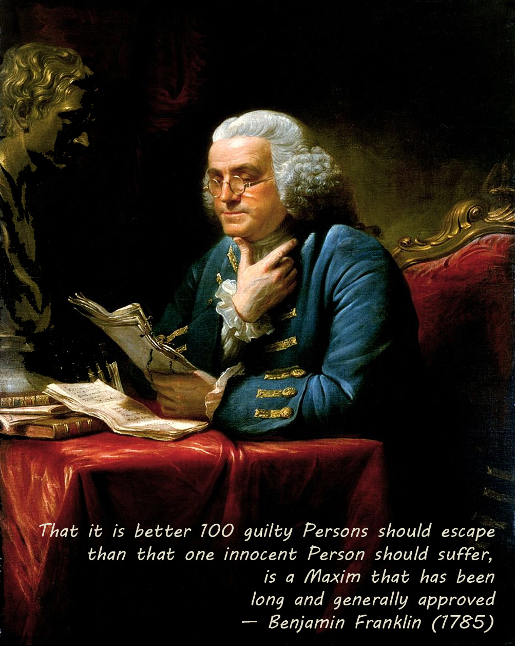 This is the most-quoted formulation of Blackstone's Ratio.